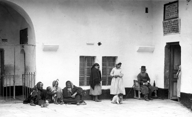 Misgav Ladach Hospital, Jerusalem, Health in Israel